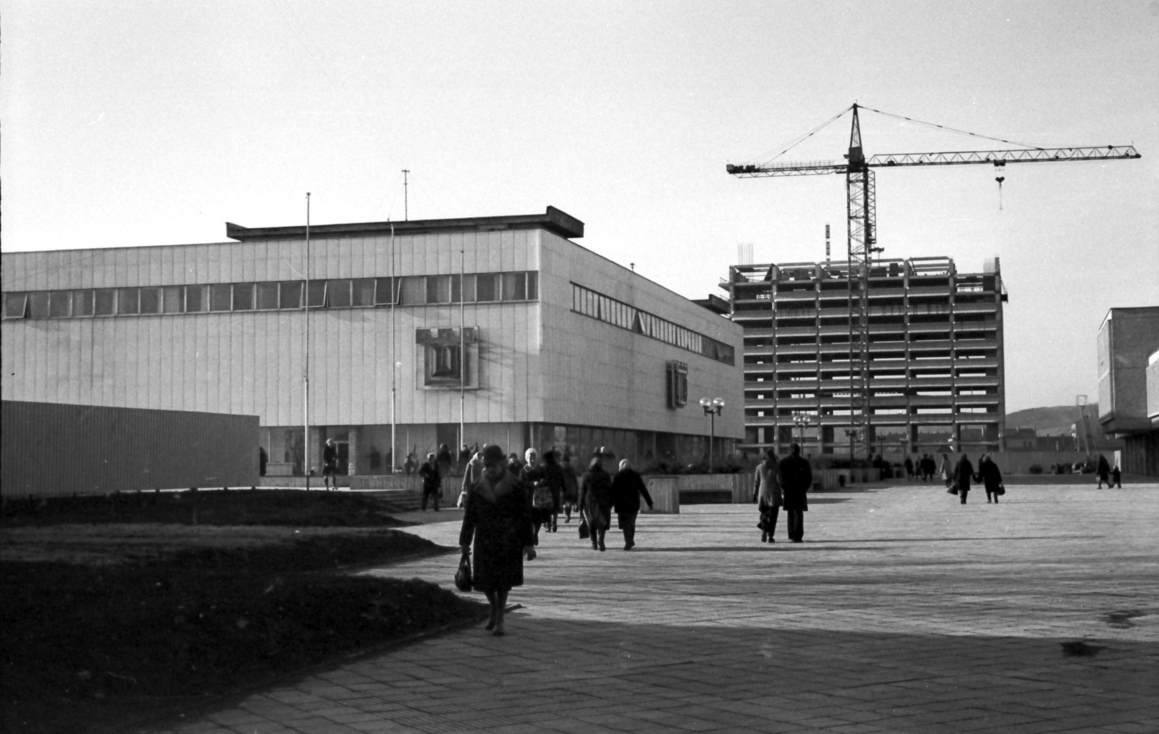 Hotel Lietuva in Vilnius, Lithuania